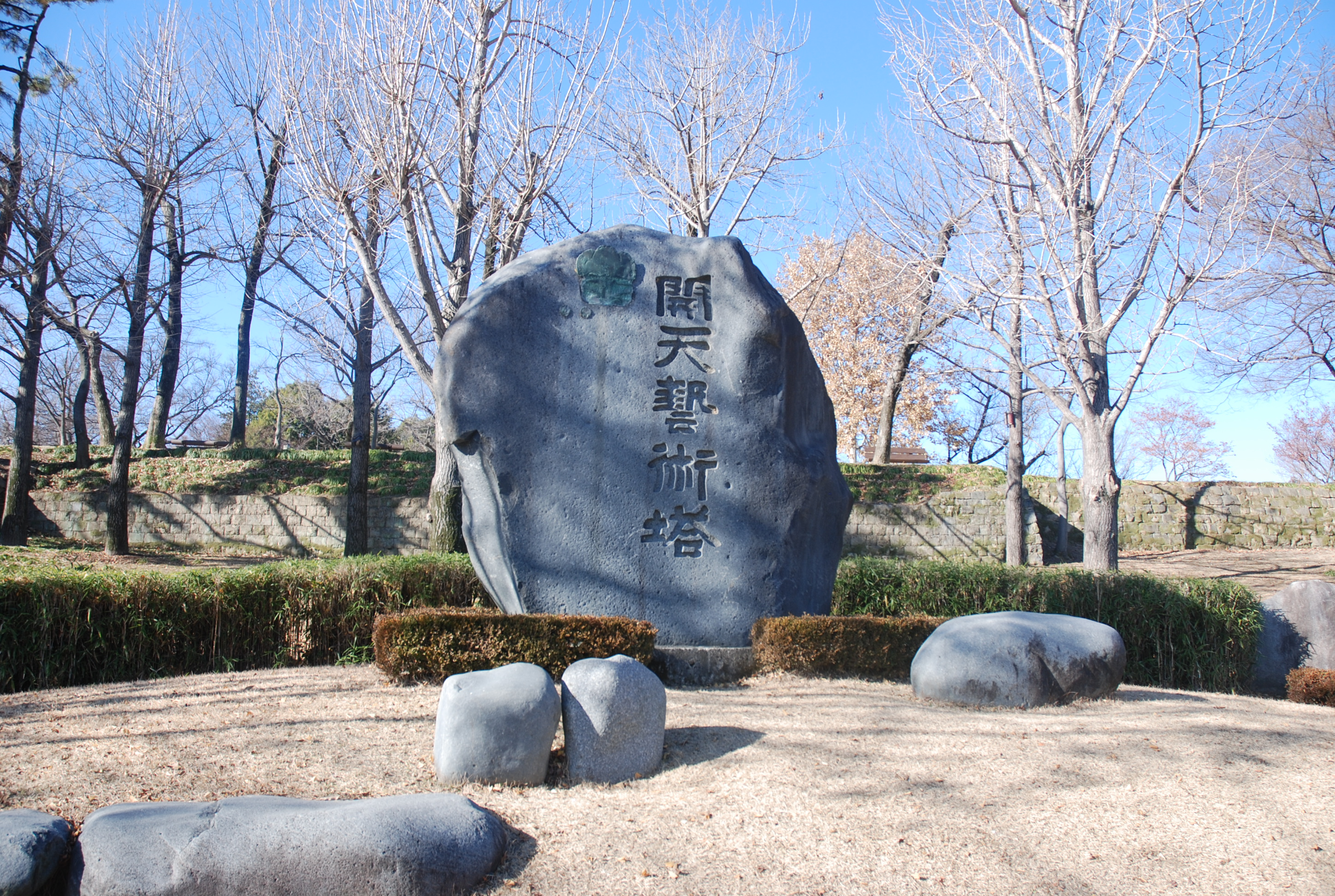 Gaechun Art Festival Memorial Monument. The Gaechun Art Festival was first held in 1949 in honor of the National Foundation Day.